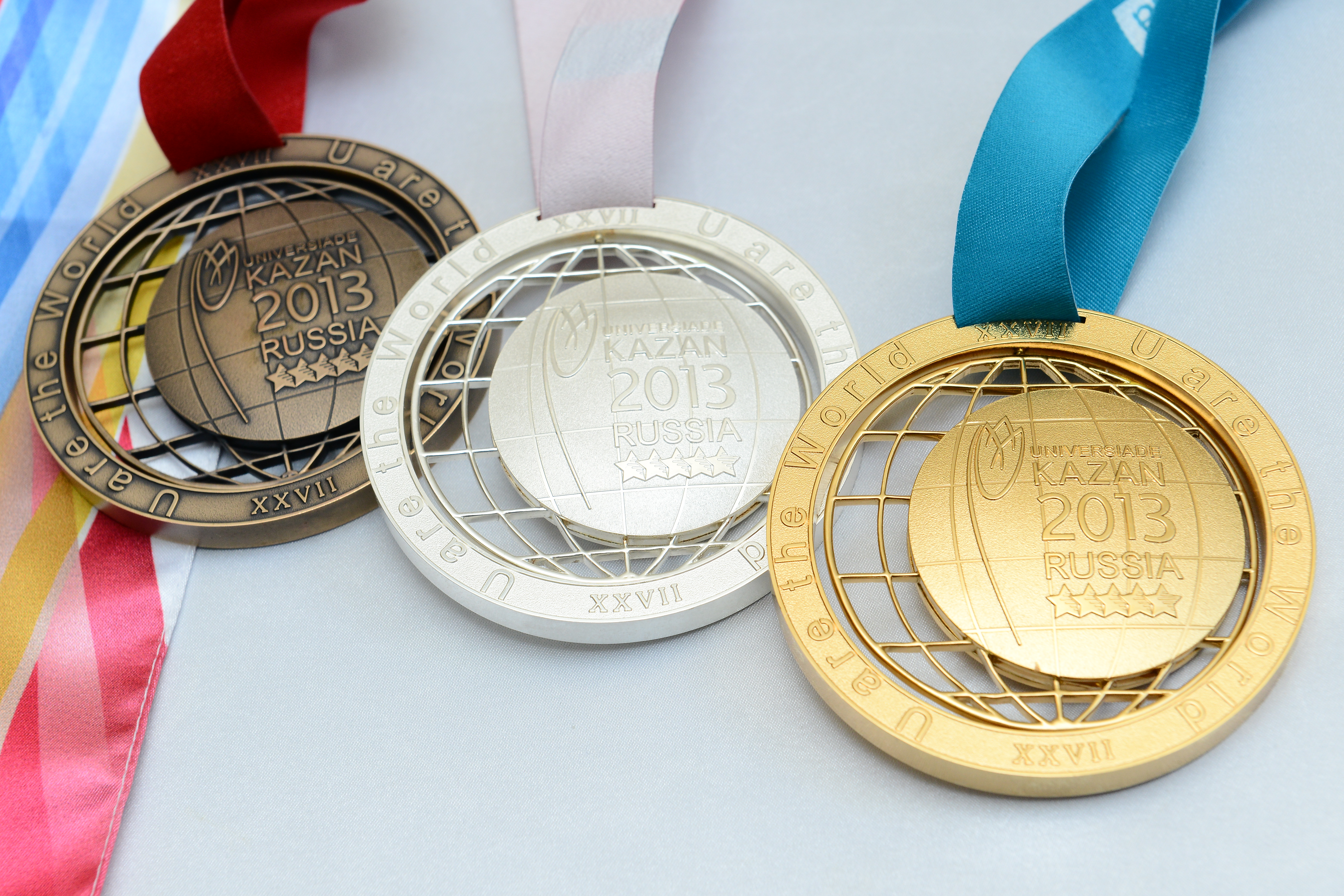 medals kazan2013